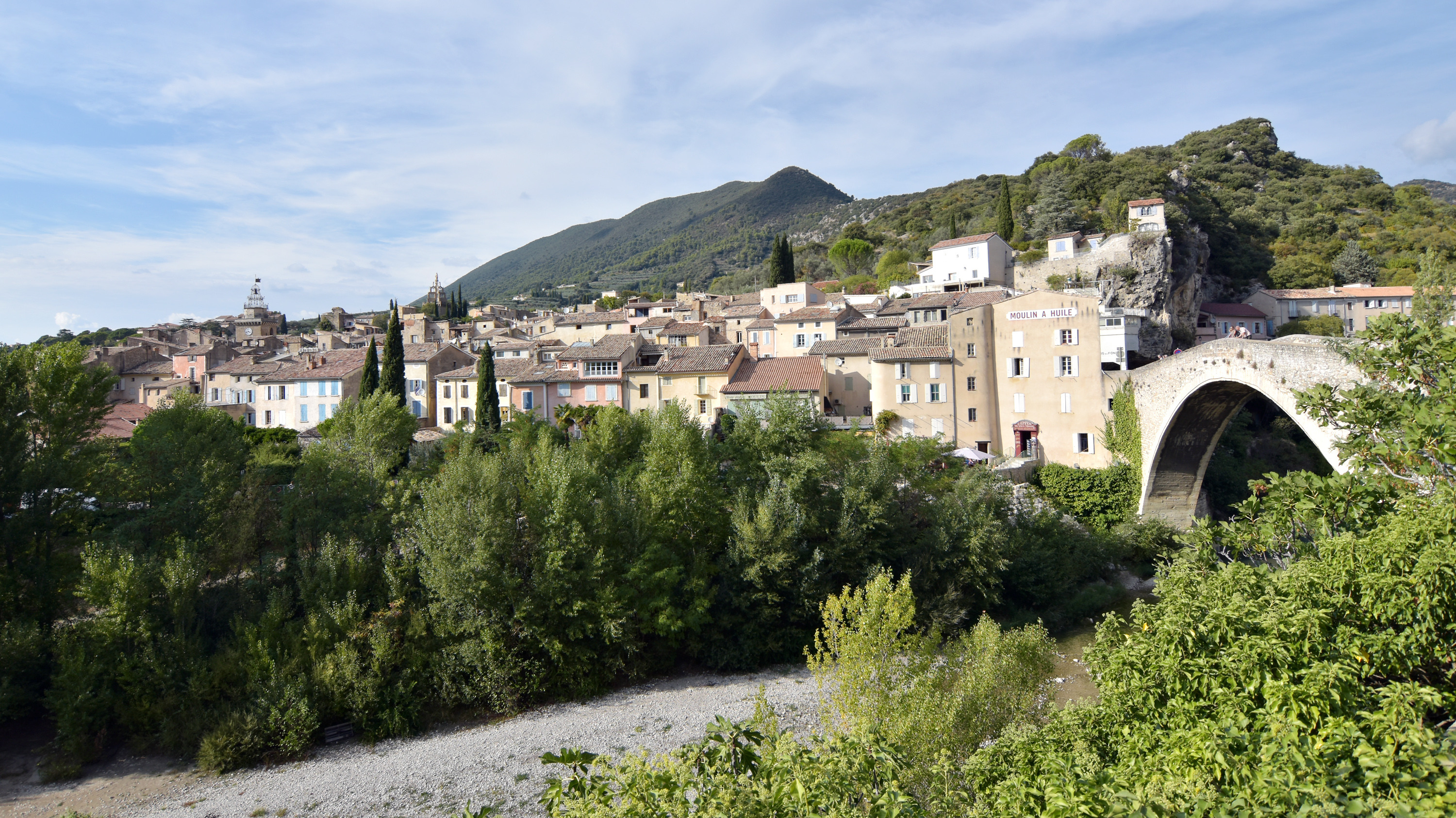 Nyons